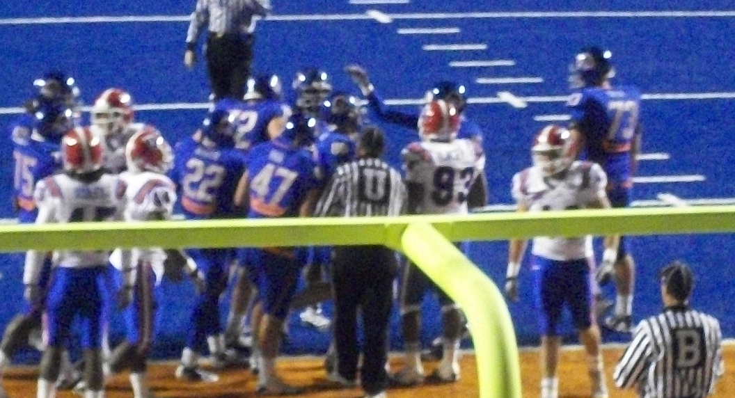 Boise State Broncos players celebrate a touchdown on a fumble recovery by tight end Kyle Efaw during their game vs Louisiana Tech at Bronco Stadium in Boise, Idaho on October 26, 2010.